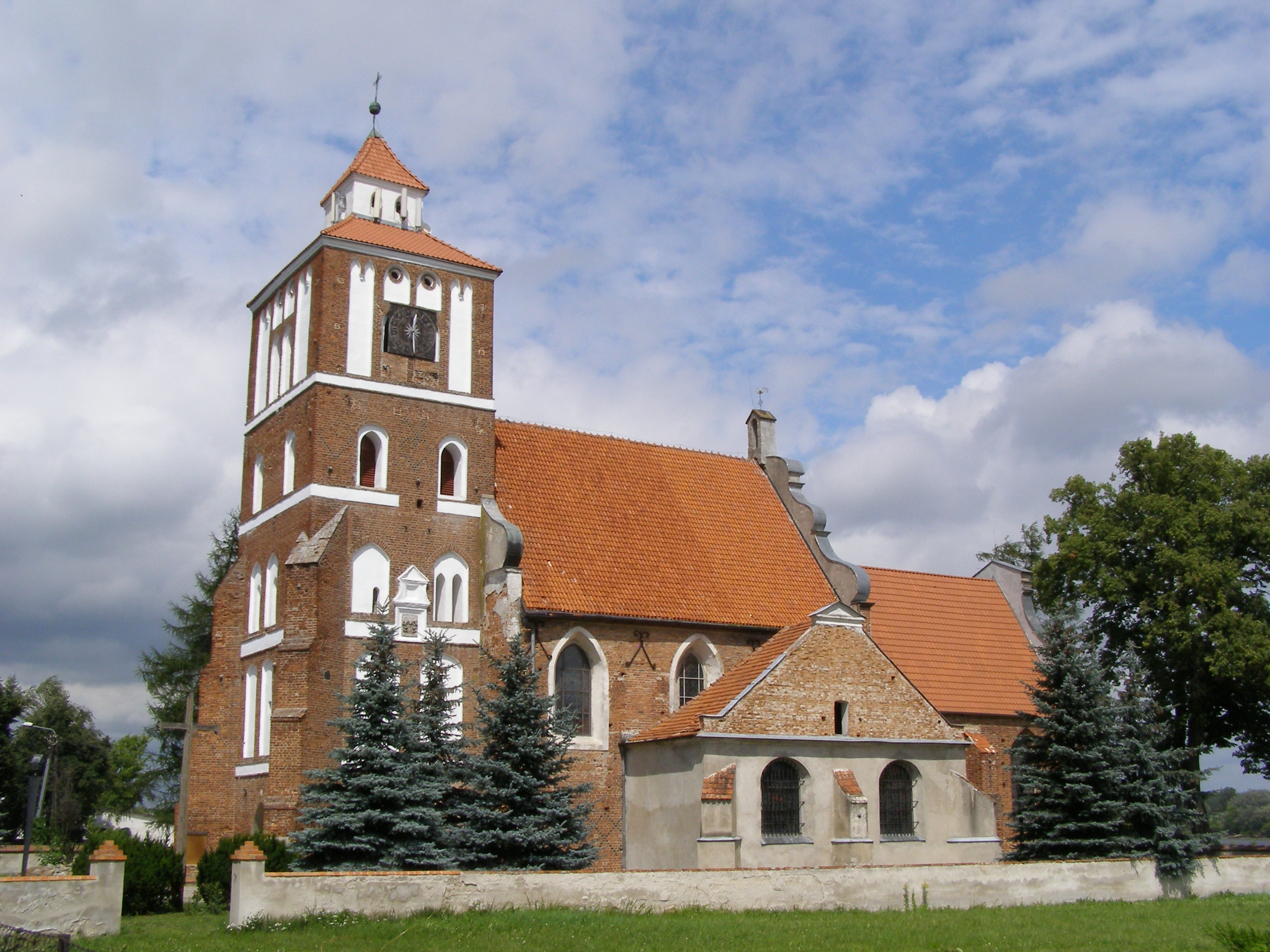 Nieszawa - St. Hedwig church